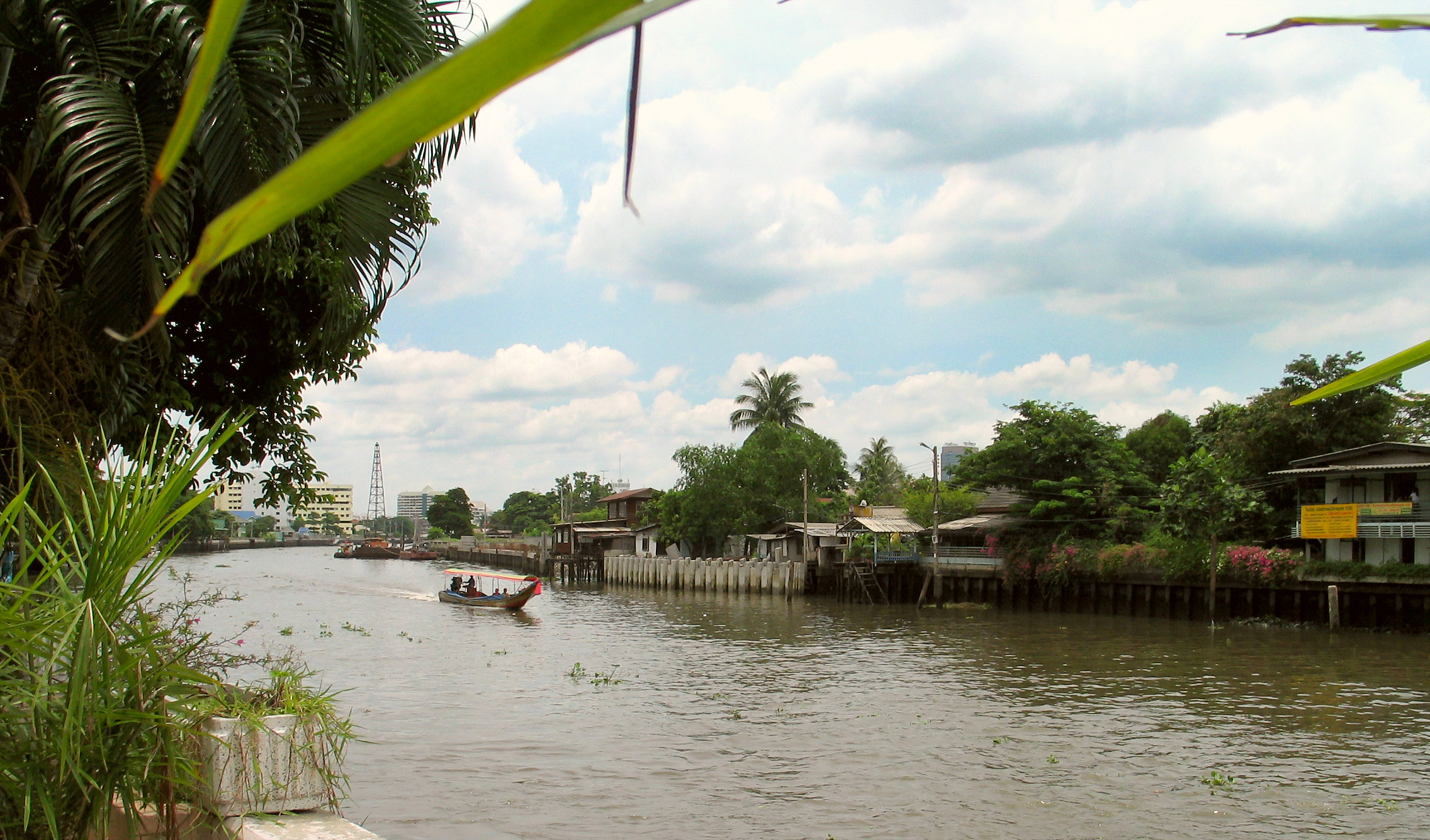 Khlong Bangkok Noi near Wat Sisudaram, Bangkok Noi district, Bangkok